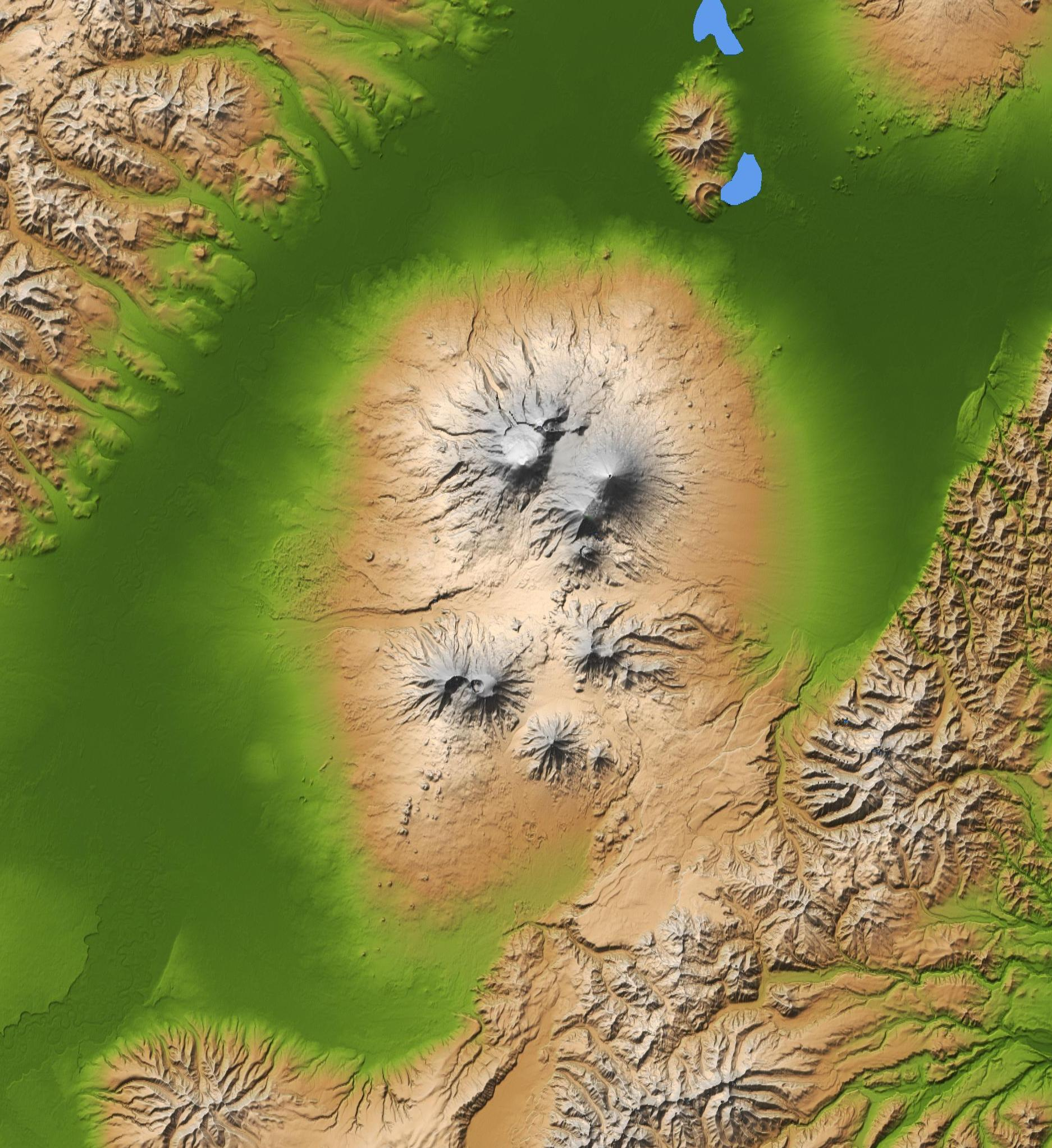 Topographic map of Kliuchevskoi volcanic group, Kamchatka peninsula, Russia